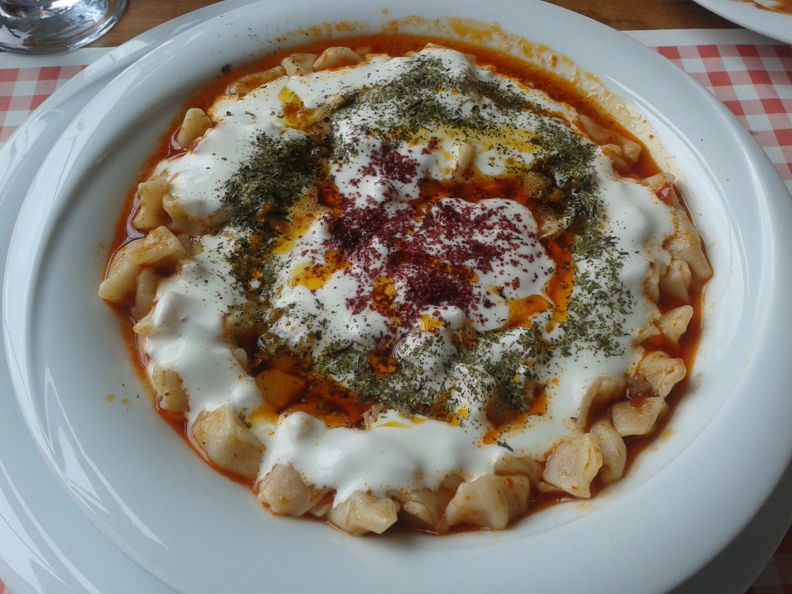 "Kayseri mantısı" (Manti of Kayseri) at a Kayseri restaurant in Ankara.